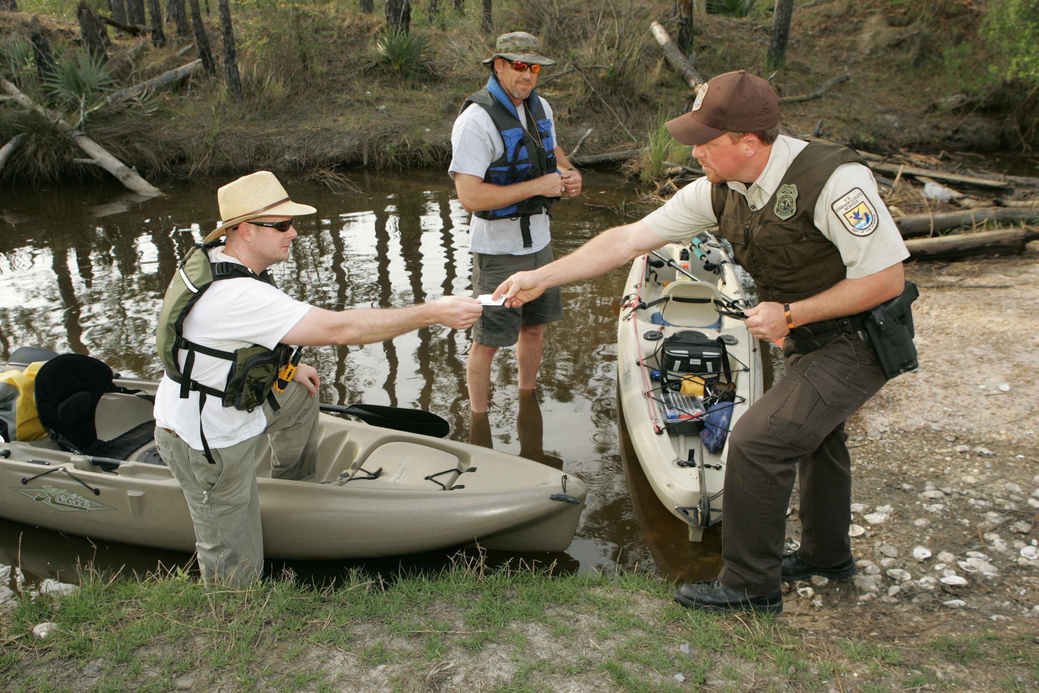 Image title: Fishing licence compliance check Image from Public domain images website